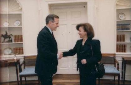 President George H. W. Bush meets with Rick Perry and Nayla Moawad